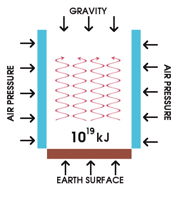 Anthropogenic heat output based on world energy consumption data.